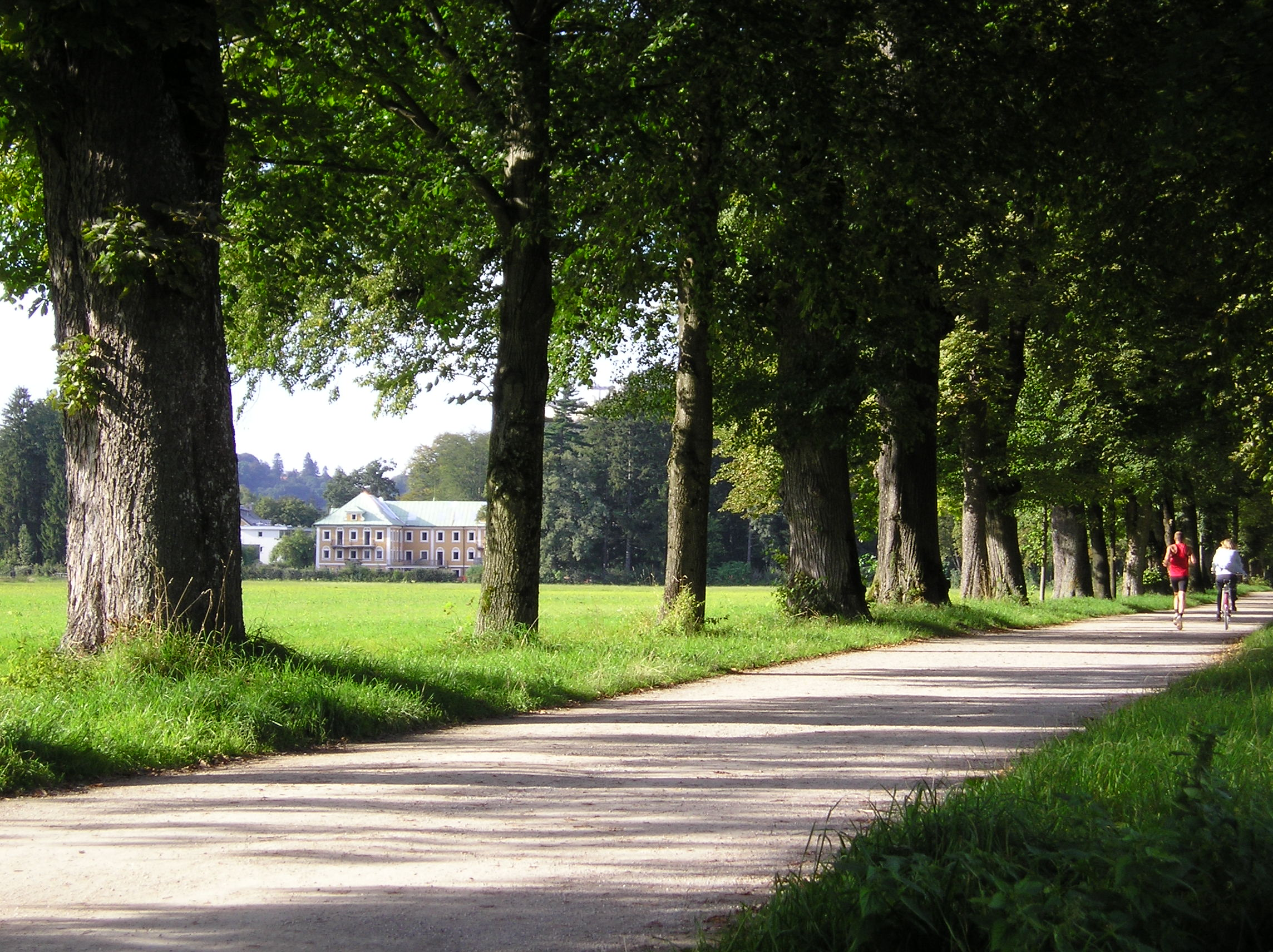 A View of the Hellbrunner Allee, a historic walking and cycling avenue lined with trees leading from the Old Town to Hellbrunn Castle through the landscape protection area of Salzburg City South